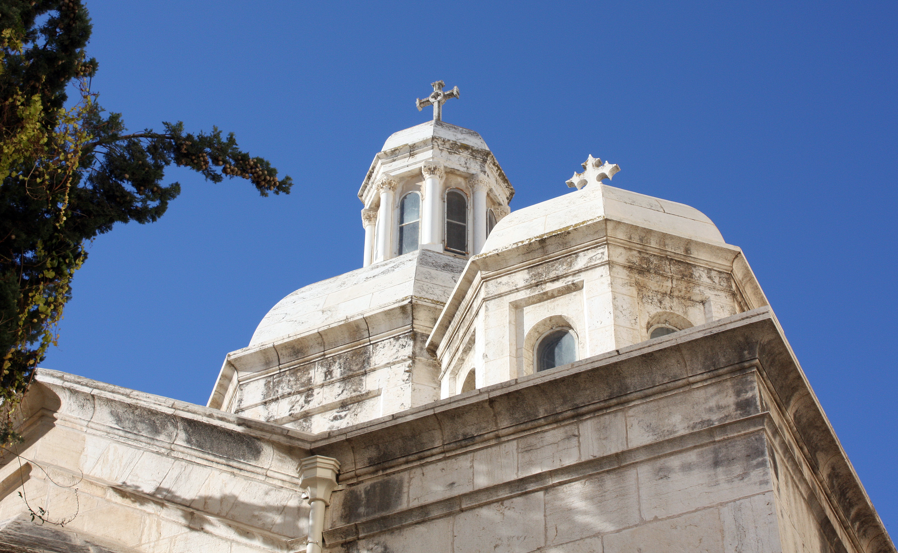 Church of the Condemnation and Imposition of the Cross